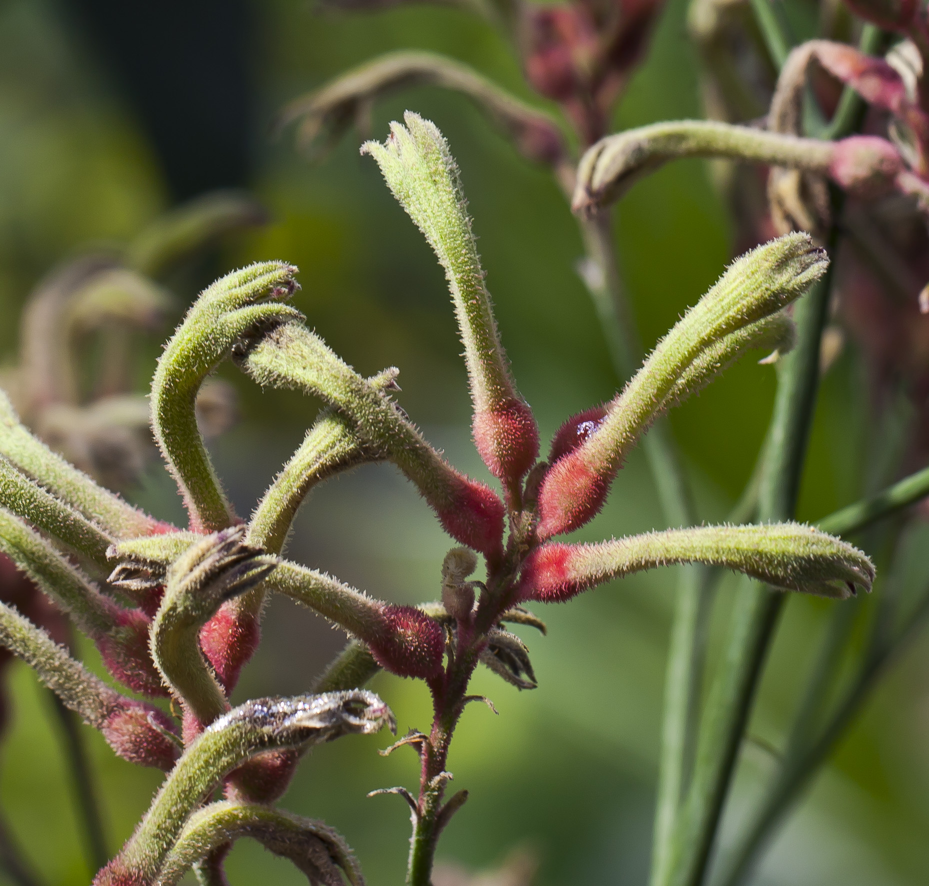 Anigozanthos flavidus, Tallinn Botanic Garden, Estonia